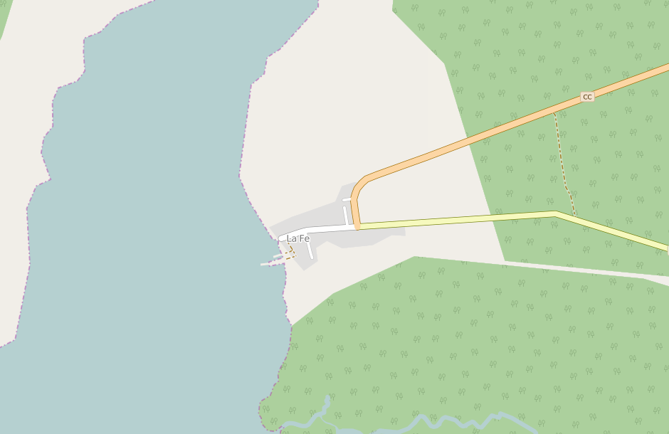 This map may be incomplete, and may contain errors. Don't rely solely on it for navigation.